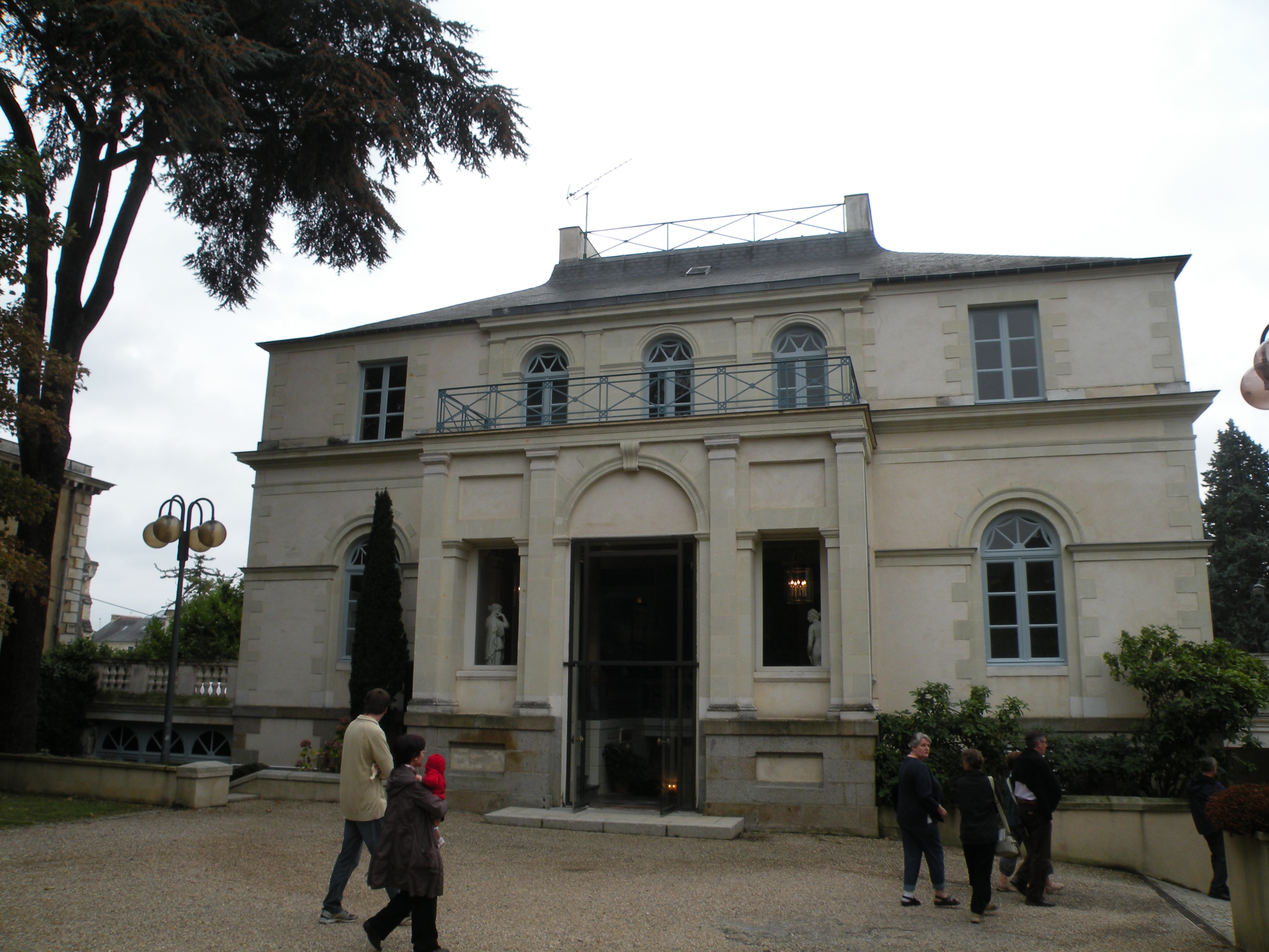 Northern façade of the Hôtel de Courcy, Rennes.